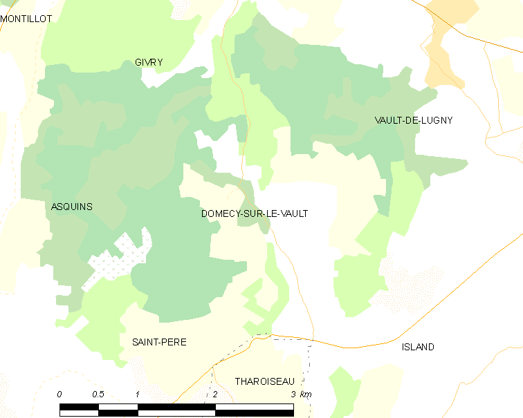 Map of French municipality Domecy-sur-le-Vault